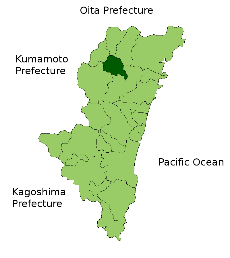 Location Map of Morotsuka in Miyazaki Prefecture, Japan